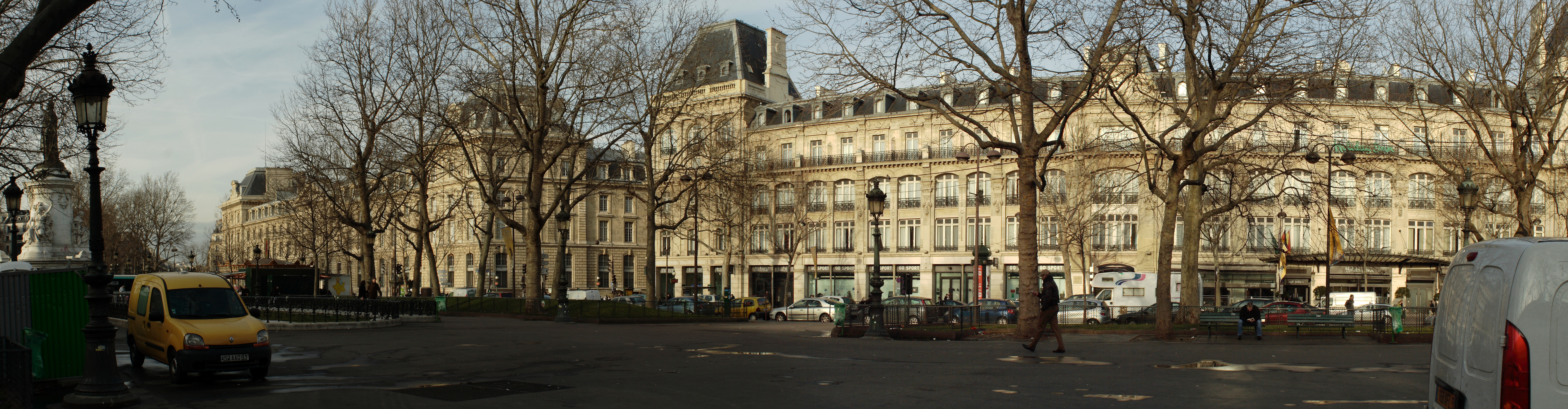 Panorama of the northen side of the place de la République (Paris).This image is a panorama consisting of 4 frames that were merged in Hugin 0.7.0